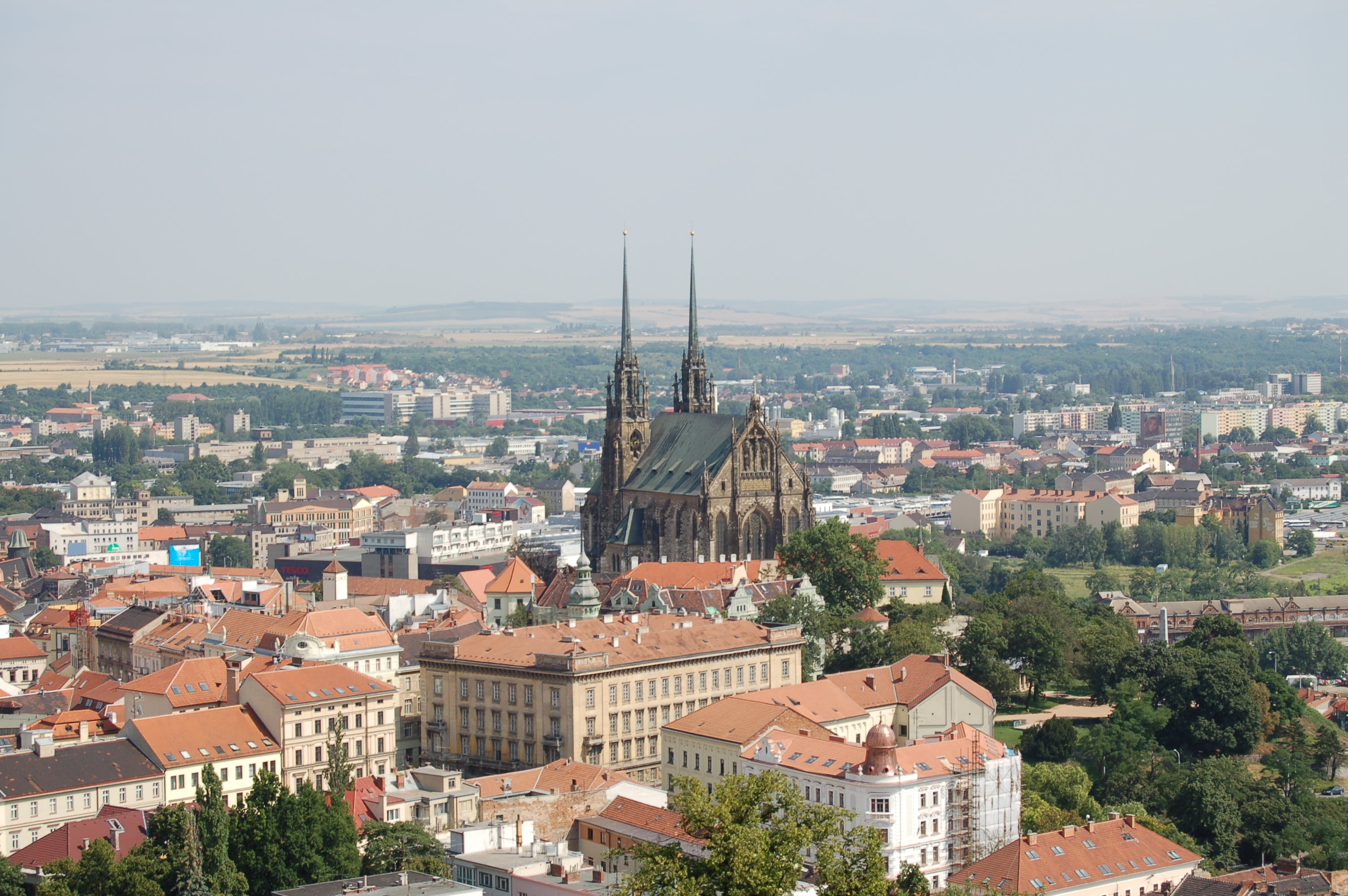 View on Brno from Spilberk Castle.